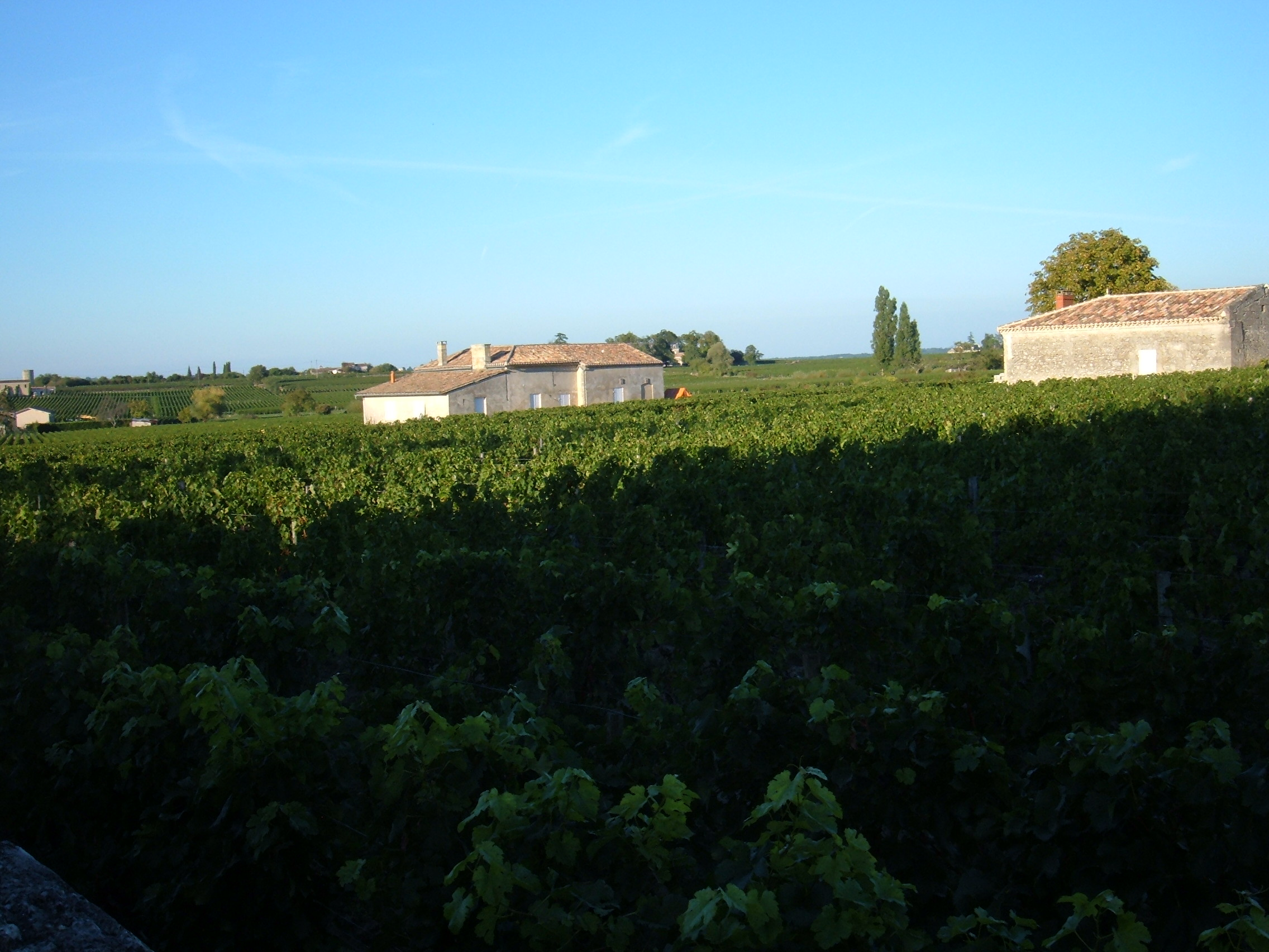 The vineyards surrounding Saint-Émilion in the Gironde department, France.